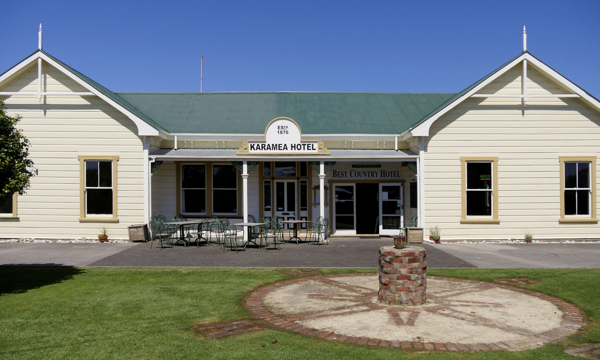 Karamea Hotel (Waverley Street / Wharf Road), Buller District, West Coast Region, South Island, New Zealand